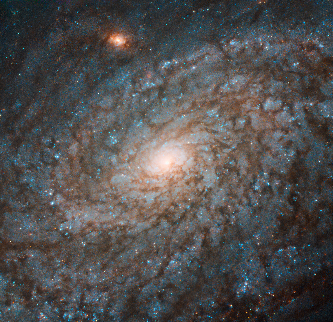 This Picture of the Week, taken by the NASA/ESA Hubble Space Telescope, shows the galaxy NGC 4237. Located about 60 million light-years from Earth in the constellation of Coma Berenices (Berenice's Hair), NGC 4237 is classified as a flocculent spiral galaxy. This means that its spiral arms are not clearly distinguishable from each other, as in grand design spiral galaxies, but are instead patchy and discontinuous. This gives the galaxy a fluffy appearance, somewhat resembling cotton wool. Astronomers studying NGC 4237 were actually more interested in its galactic bulge — its bright central region. By learning more about these bulges, we can explore how spiral galaxies have evolved, and study the growth of the supermassive black holes that lurk at the centres of most spirals. There are indications that the mass of the black hole at the centre of a galaxy is related to the mass of its bulge. However, this connection is still uncertain, and why these two components should be so strongly correlated is still a mystery — one that astronomers hope to solve by studying galaxies in the nearby Universe, such as NGC 4237.